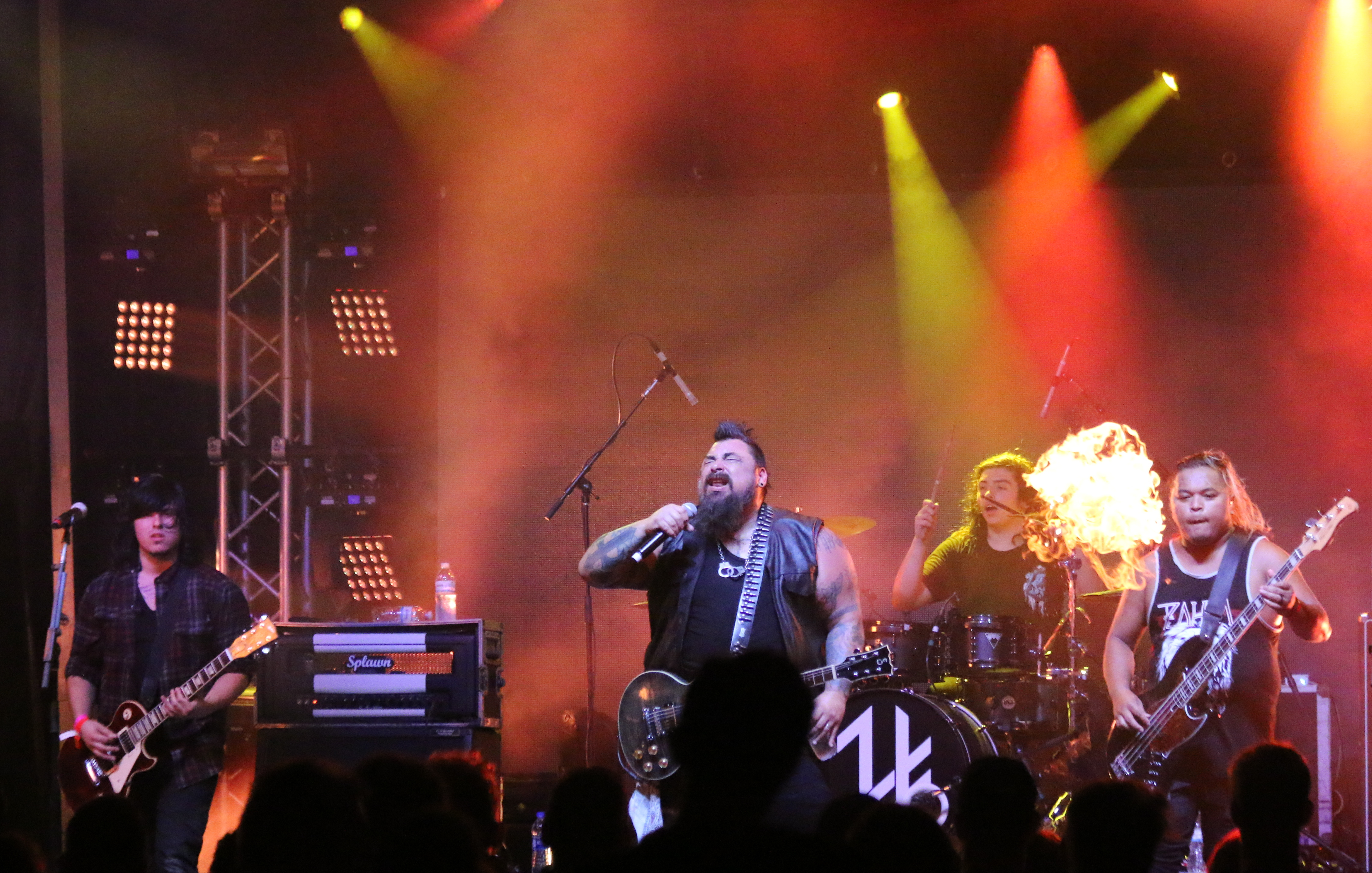 Seventh Day Slumber performing at Lifest.